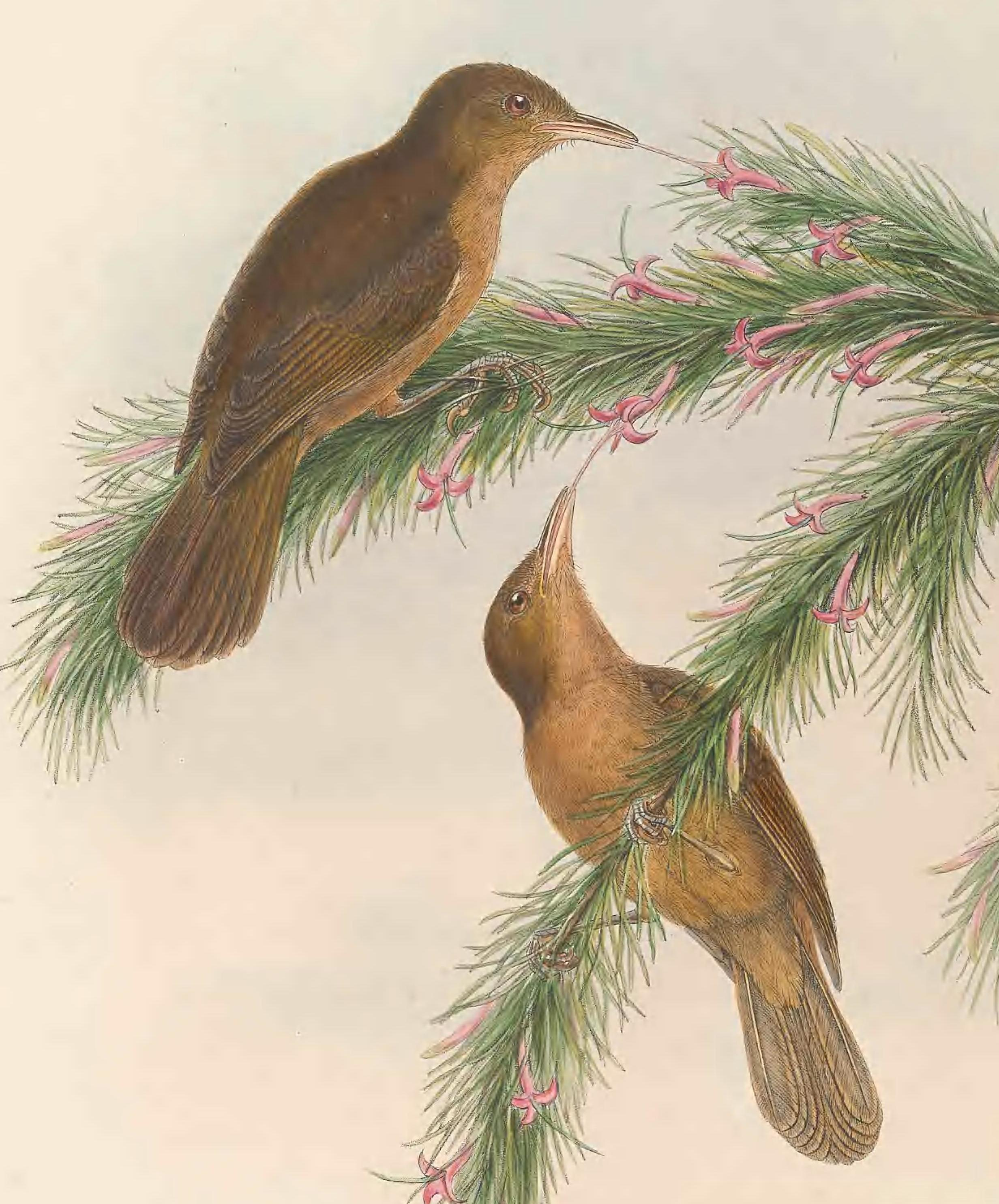 Euthyrhynchus griseigula (=Timeliopsis griseigula) in The birds of New Guinea and the adjacent Papuan islands, including many new species recently discovered in Australia. v.3 (Plate 55).